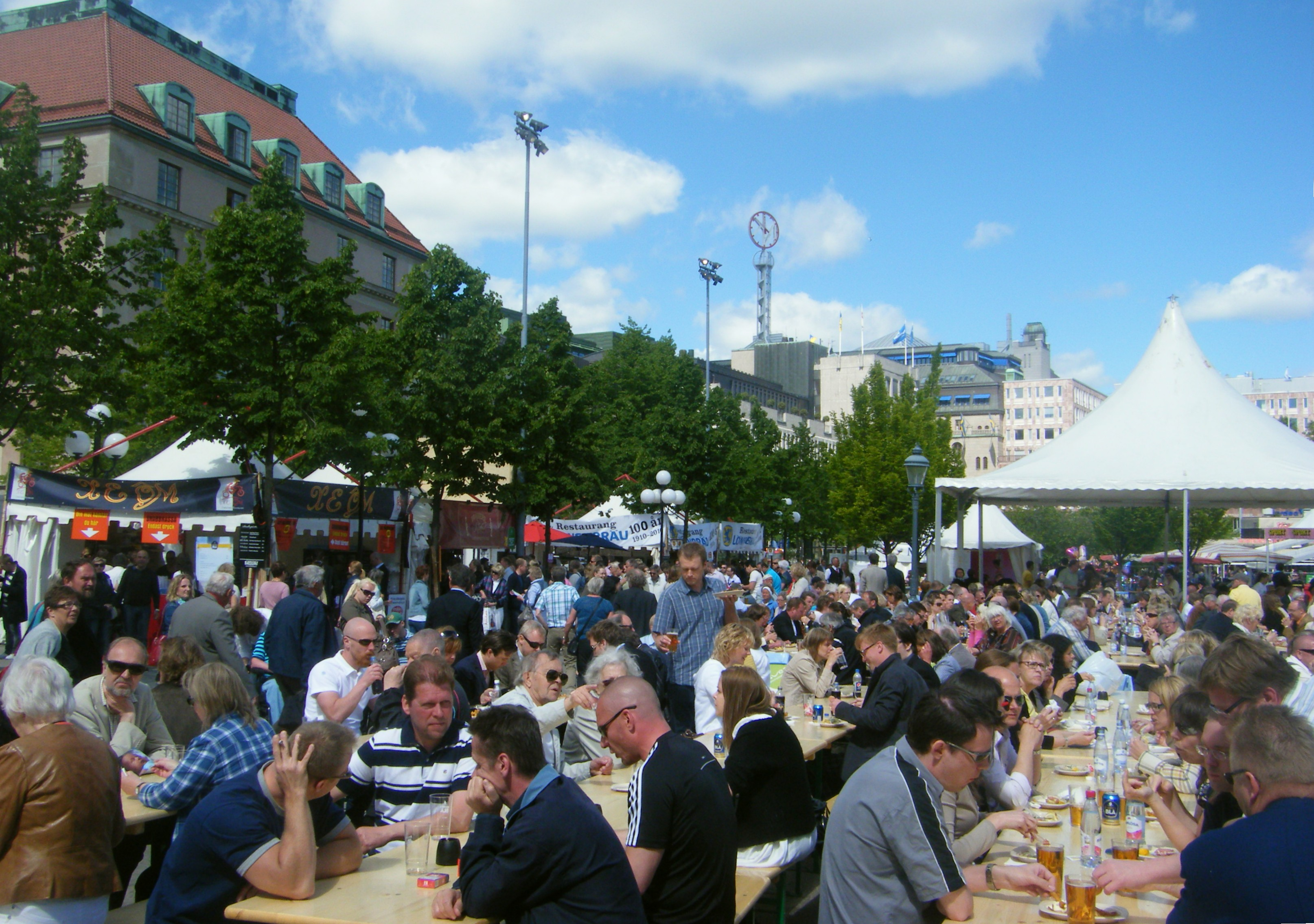 Smaka på Stockholm, 2010